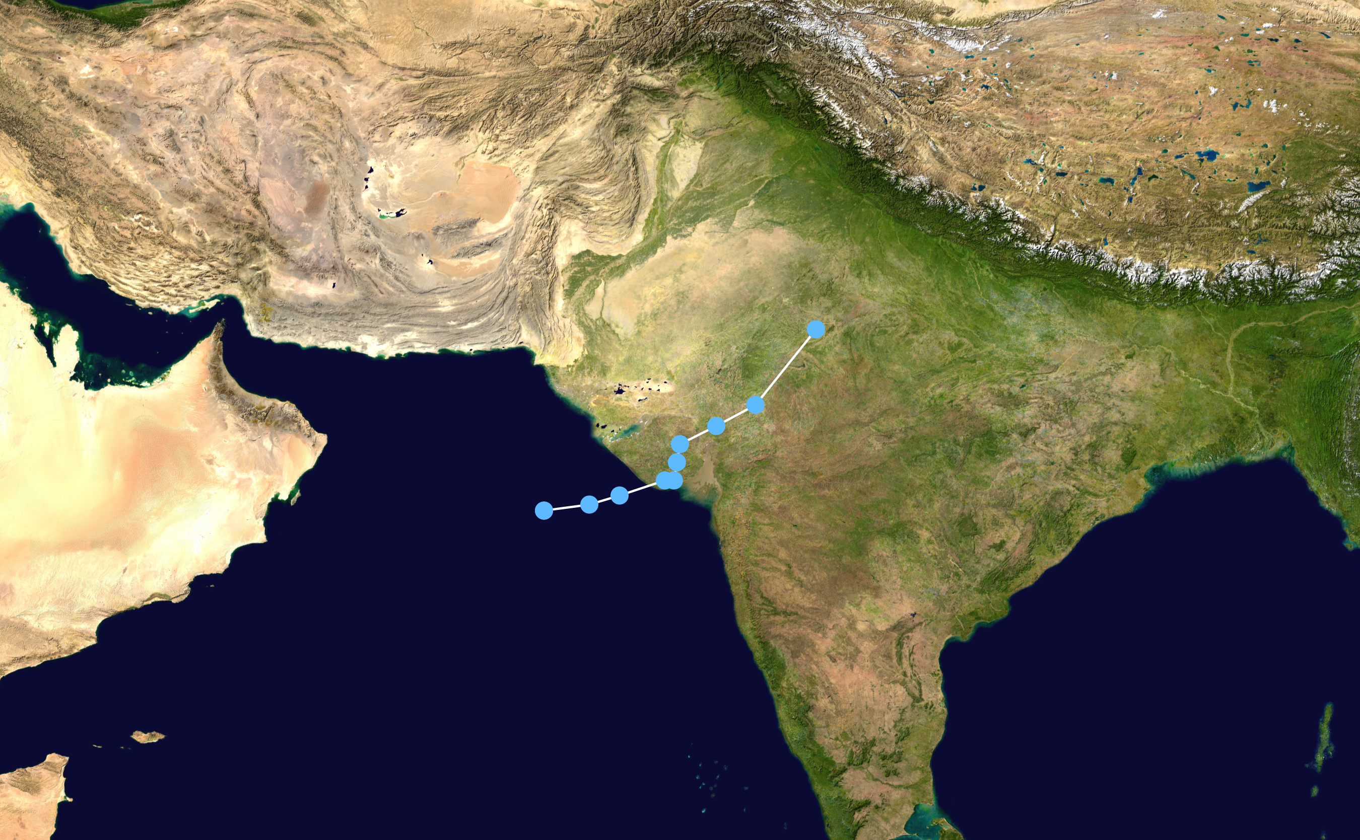 Track map of Deep Depression ARB 02 of the 2015 North Indian Ocean cyclone season. The points show the location of the storm at 6-hour intervals. The colour represents the storm's maximum sustained wind speeds as classified in the Saffir–Simpson scale (see below), and the shape of the data points represent the nature of the storm, according to the legend below. Saffir–Simpson scale Tropical depression≤38 mph≤62 km/h Category 3111–129 mph178–208 km/h Tropical storm39–73 mph63–118 km/h Category 4130–156 mph209–251 km/h Category 174–95 mph119–153 km/h Category 5≥157 mph≥252 km/h Category 296–110 mph154–177 km/h Unknown Storm type Tropical cyclone Subtropical cyclone Extratropical cyclone / Remnant low / Tropical disturbance / Monsoon depression